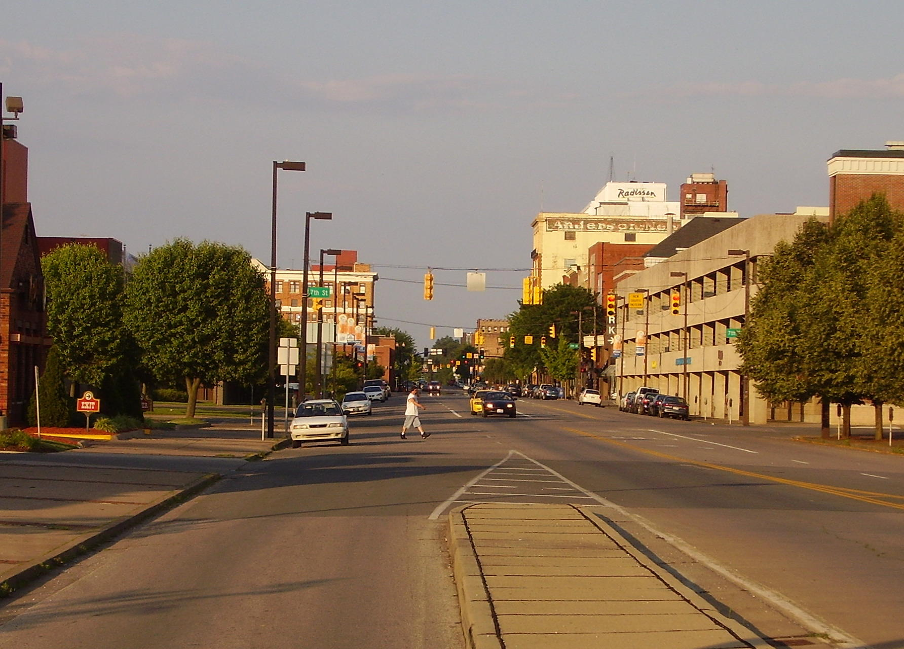 3rd Avenue in Huntington, WV looking east from the foot of the Robert C. Byrd Bridge